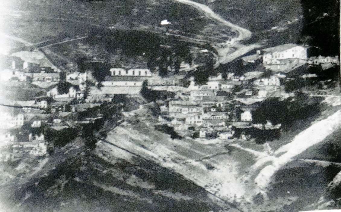 Panorama of the village Pisoderi. 1909 (Damaged glass plate) This media file is produced by Wikipedian in Residence in Category:Wikipedian in Residence at DARM in 2016.